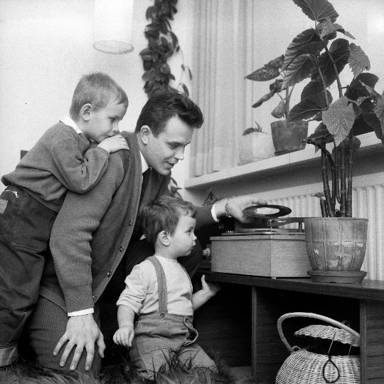 Photograph of the Finnish musician/lyricist Kari Tuomisaari (1934–) at home with his children, playing an EP record.